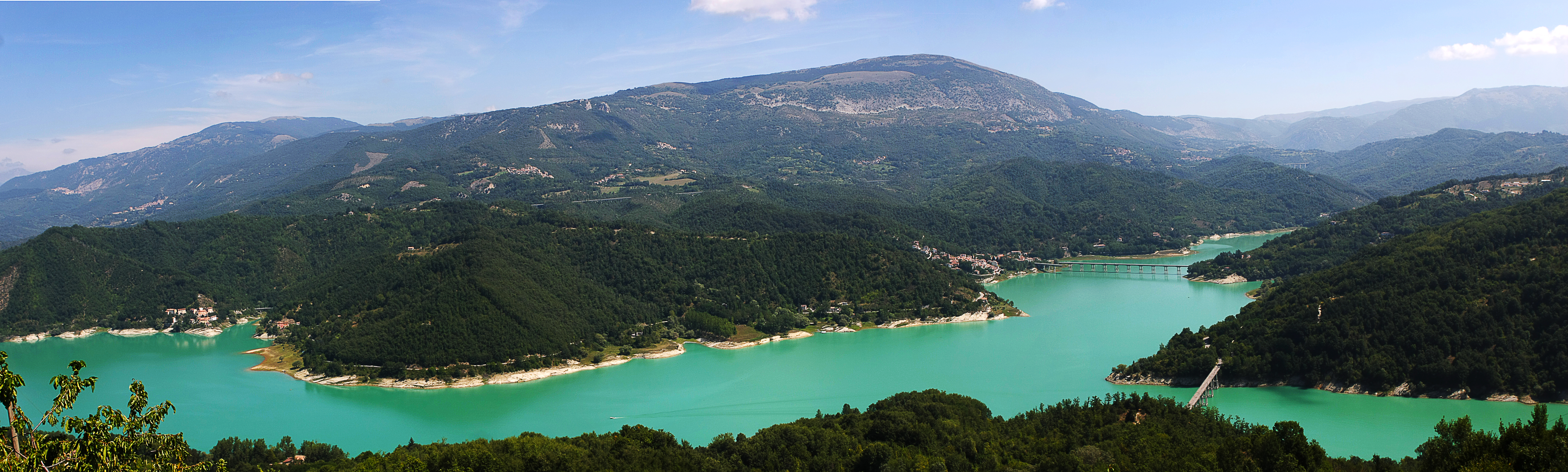 Salto Lake (Province of Rieti, Lazio, Italy)